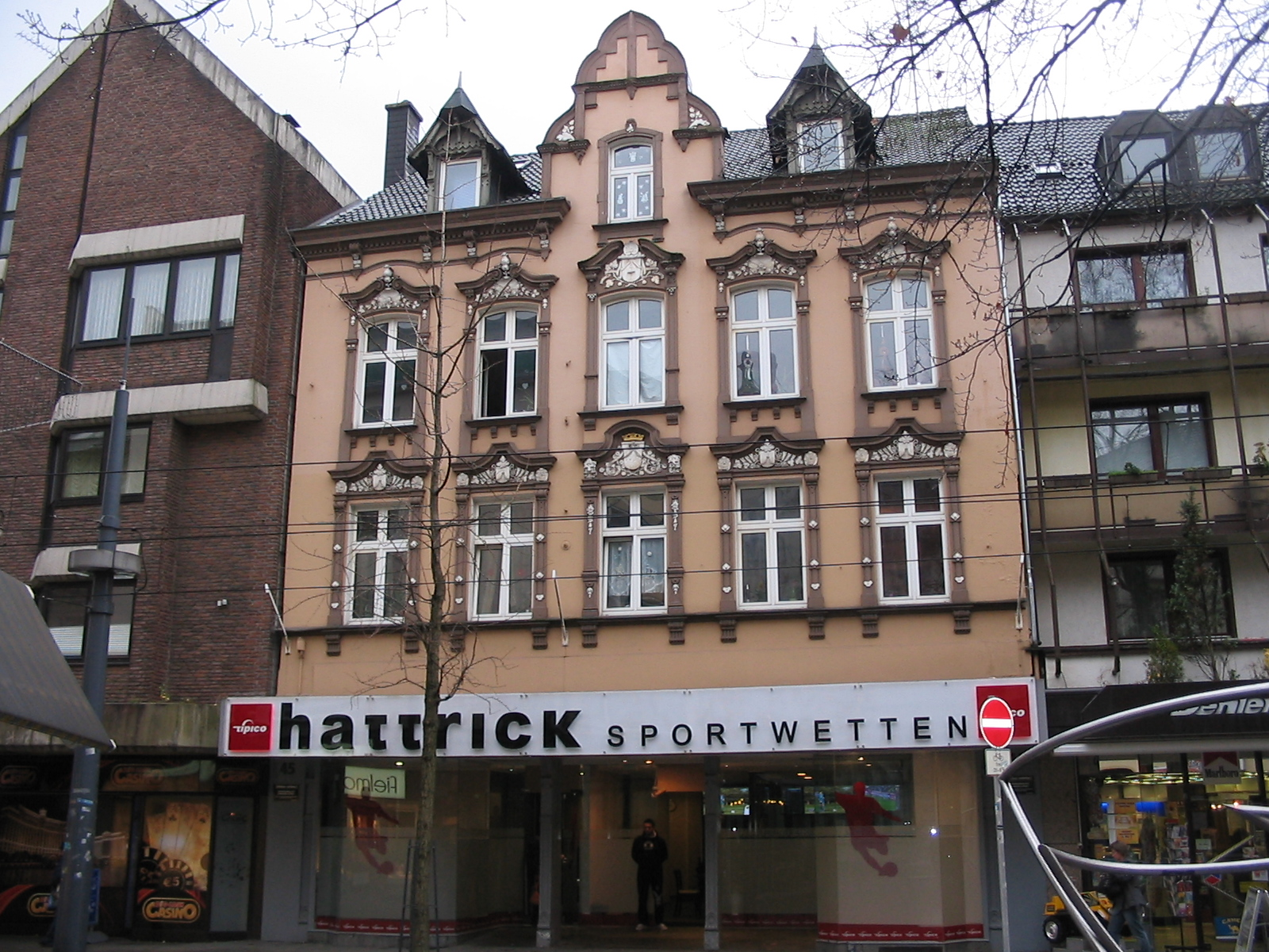 house Bahnhofstraße 45 in Witten